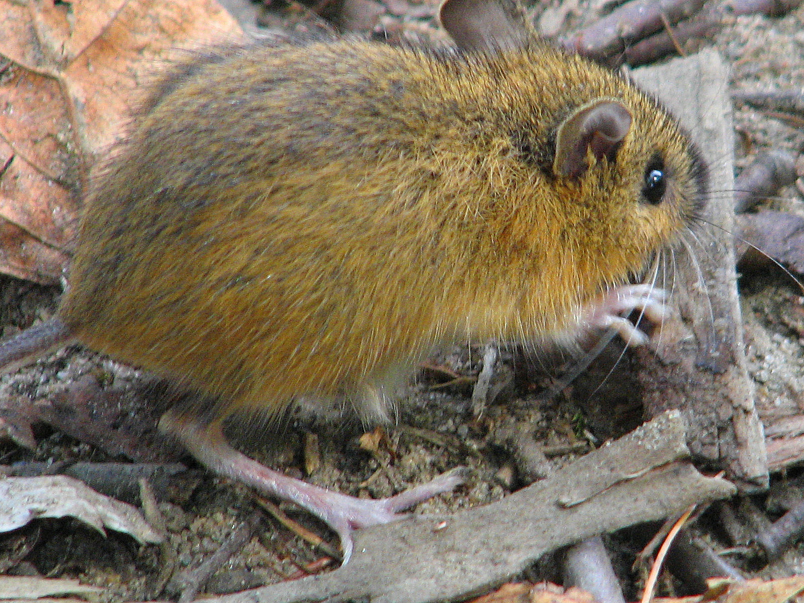 Woodland jumping mouse (Napaeozapus insignis) taken in Sturgeon River Park, Temagami, Ontario